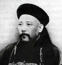 Yuan Shikai as governor of Shandong.